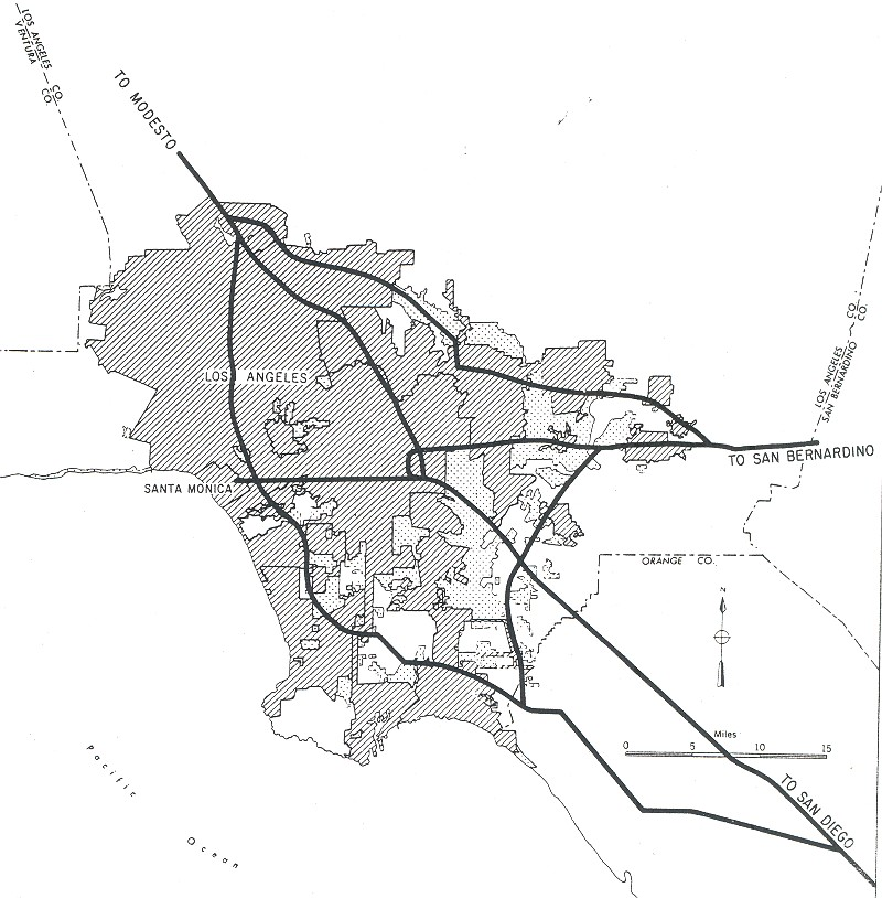 Interstates in today's terms I-5 I-10 I-110 (original route plus extension back to I-10) I-210 I-405 I-605 (south of I-10)